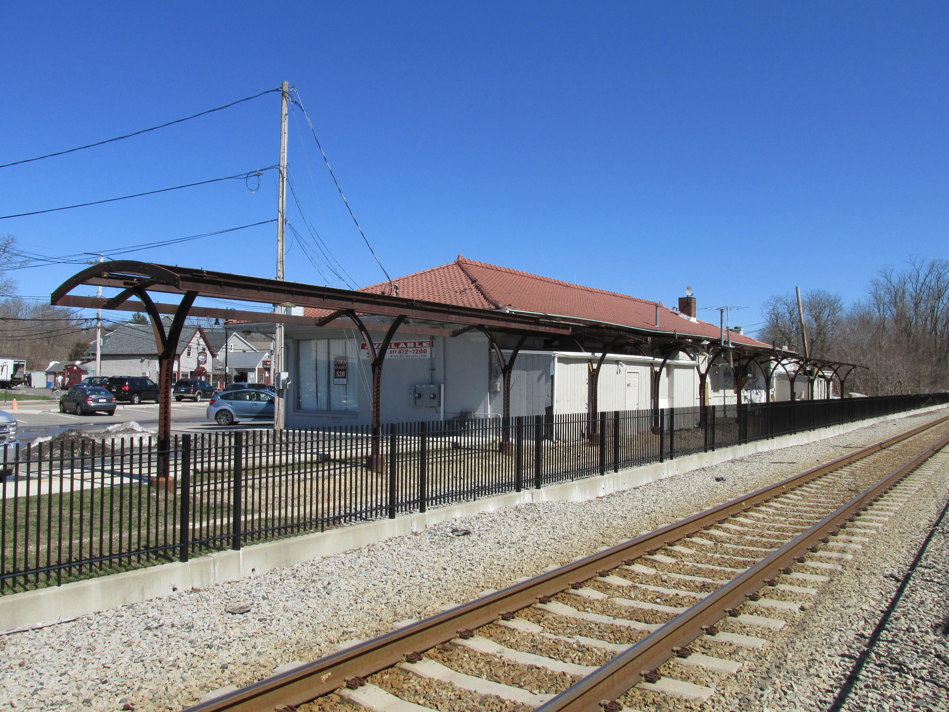 Old Railroad Station, North Scituate Massachusetts